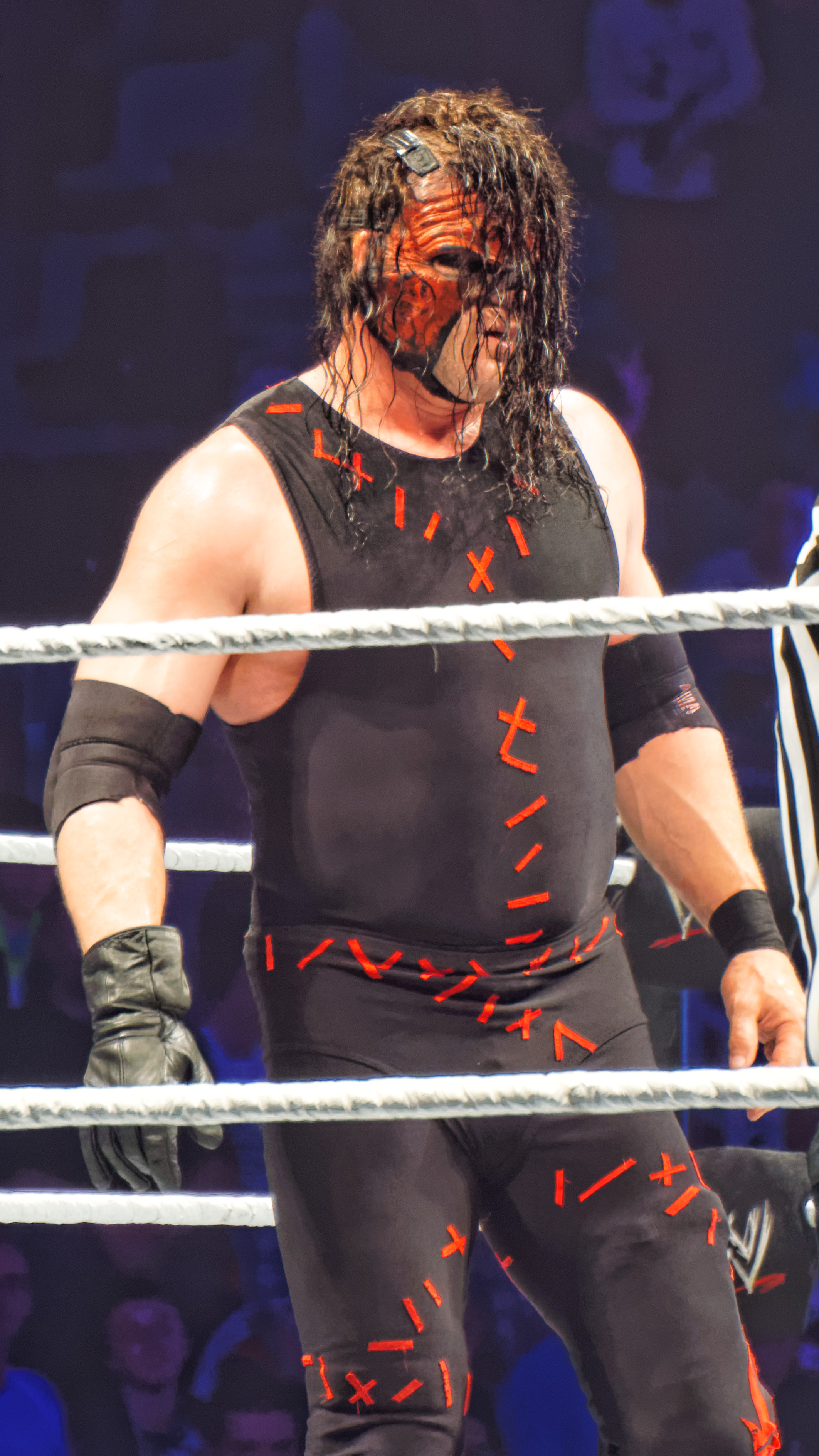 Kane 2014